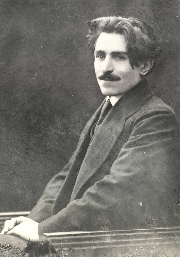 Vahan Ter-Grigorian (Teryan).